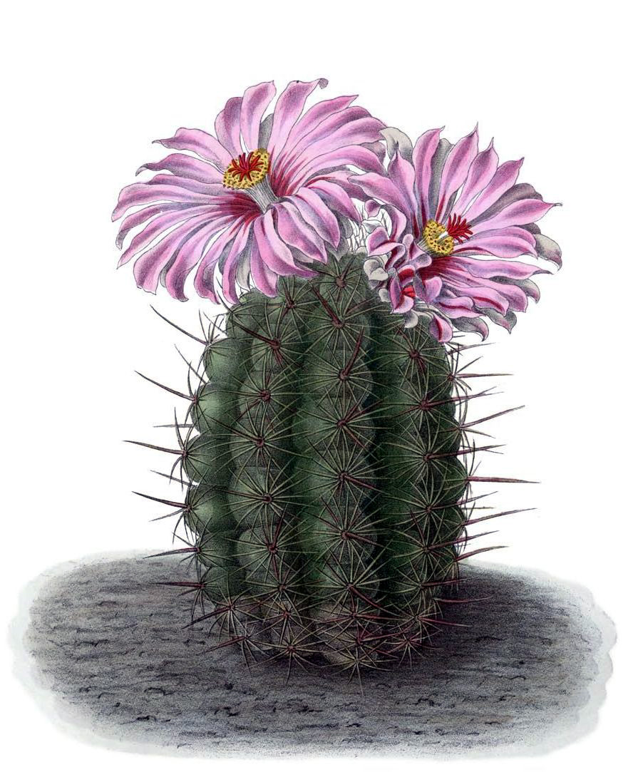 Thelocactus bicolor